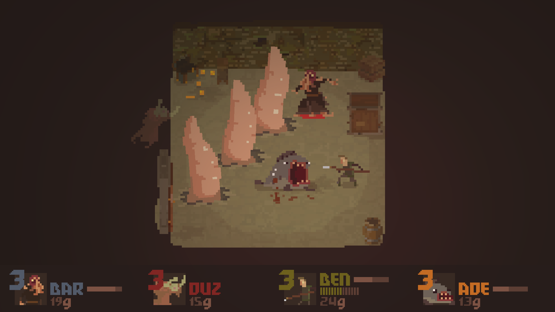 Screenshot from Crawl